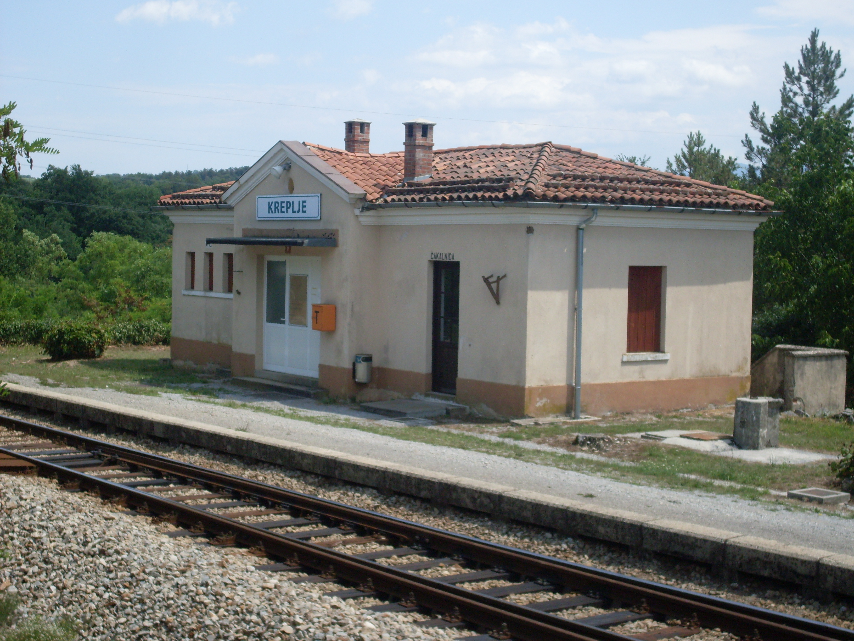 Railway halt Kreplje